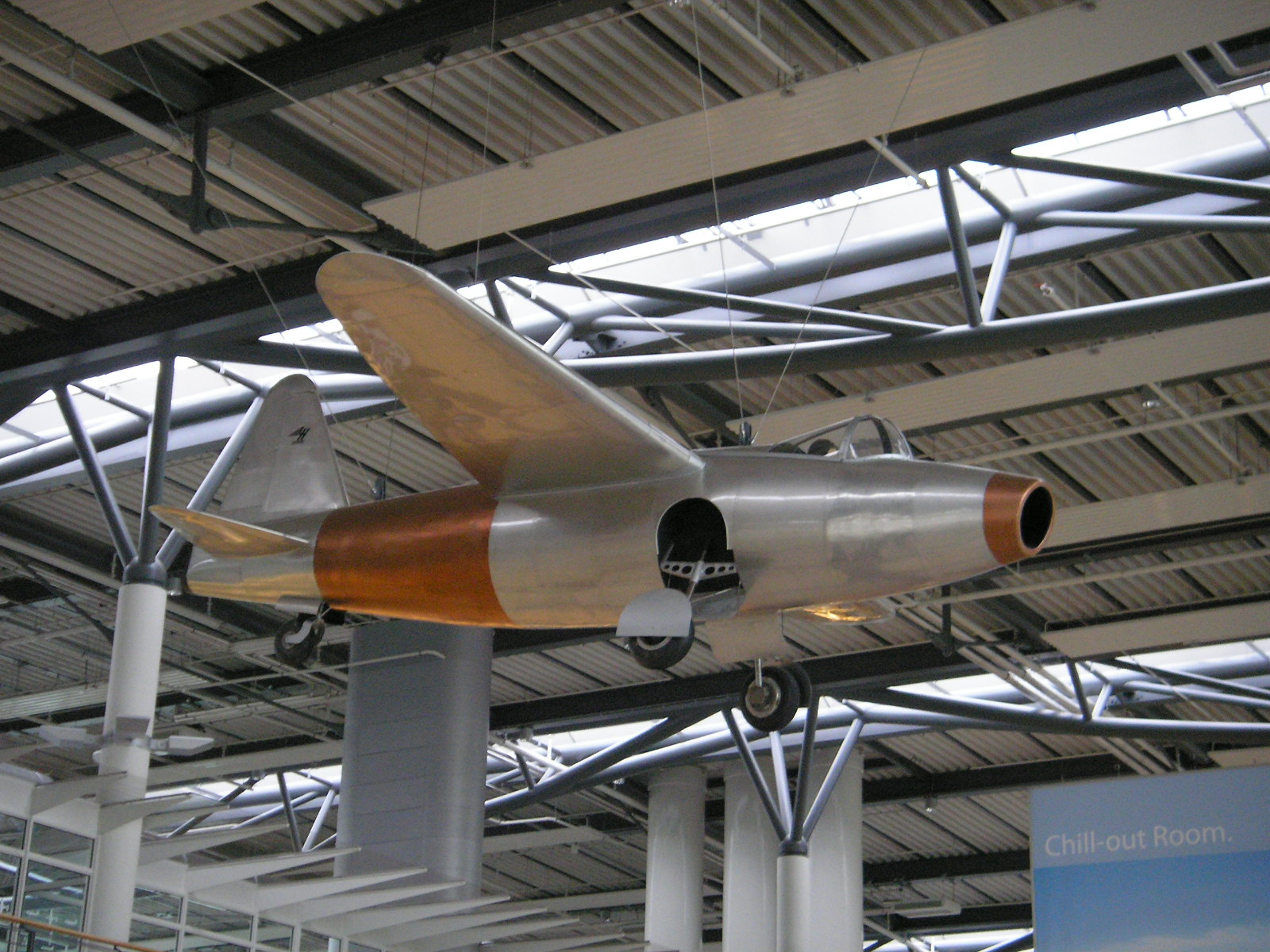 Image a plane in the airport arrival hall of Rostock-Laage. Replica of Heinkel He 178 - the first jet engine worldwide ; Nachbau der Heinkel He 178, des ersten Strahlflugzeugs der Welt